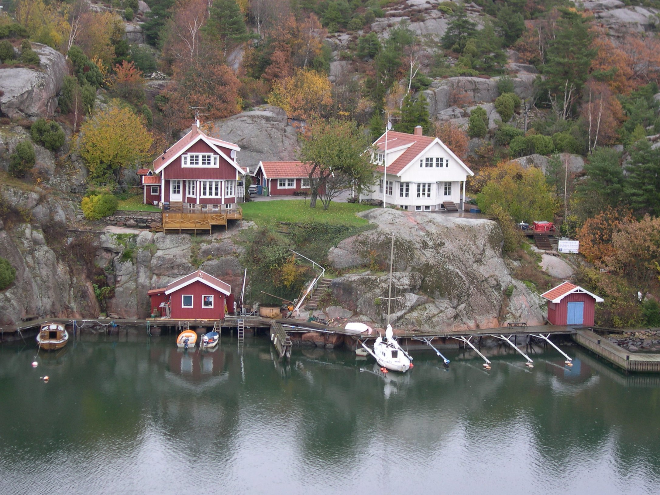 Picture by Frédéric Bonifas a fjord near from Göteborg (Sweden)